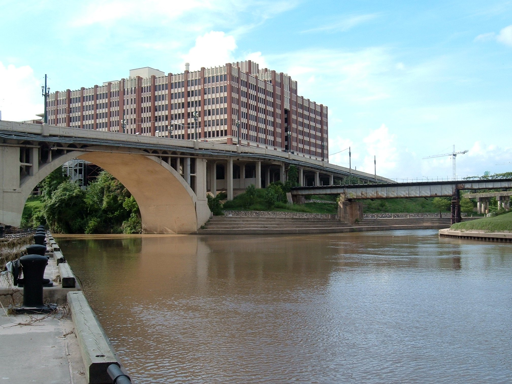 Allen's Landing with the One Main Building of the University of Houston-Downtown (formerly the Merchants and Manufacturers Building) in Houston, Texas, USA